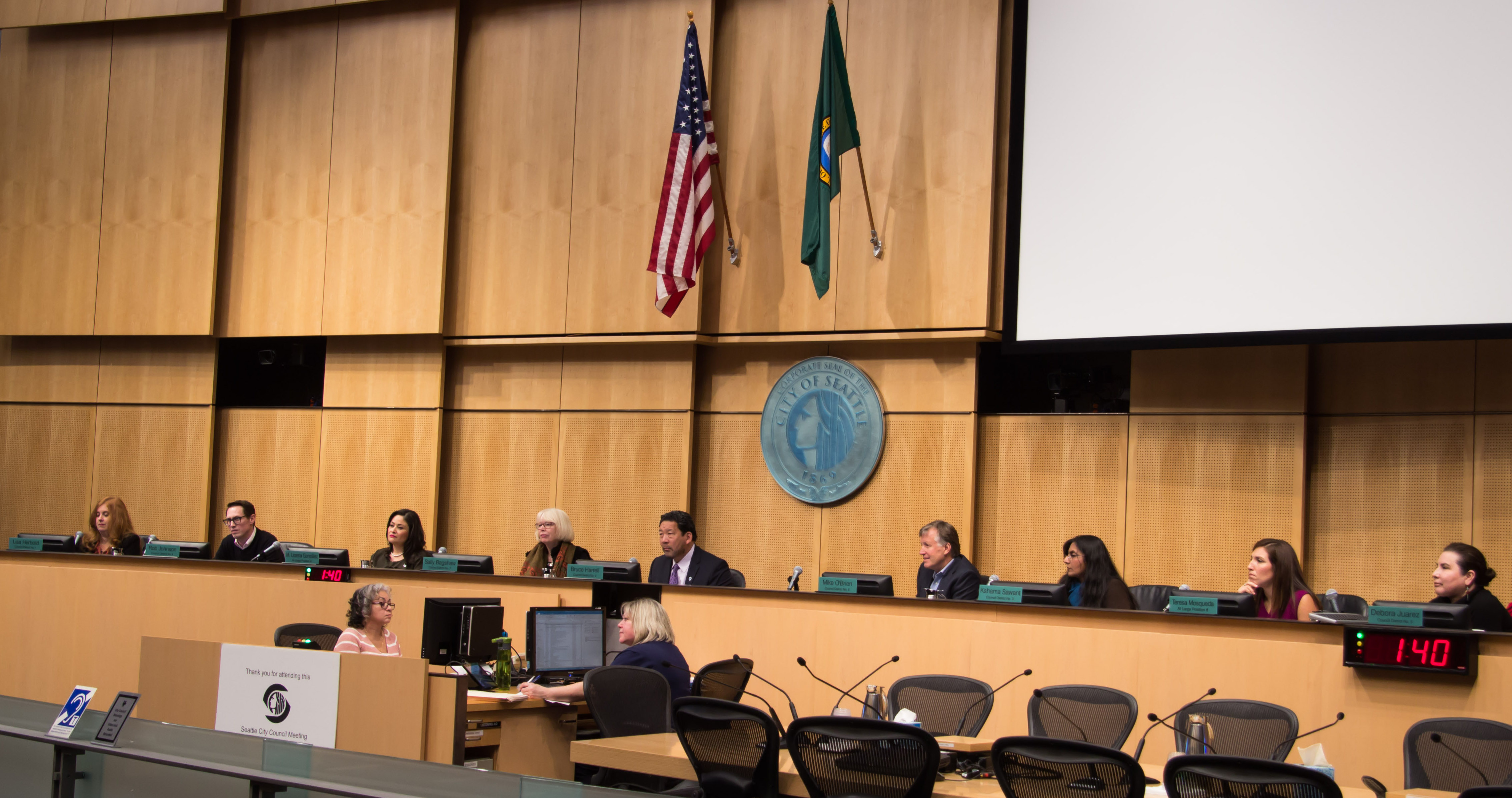 Seattle City Council in council chambers, January 2018. From left to right: Lisa Herbold, Rob Johnson, Lorena González, Sally Bagshaw, Bruce Harrell, Mike O'Brien, Kshama Sawant, Teresa Mosqueda, and Debora Juarez.